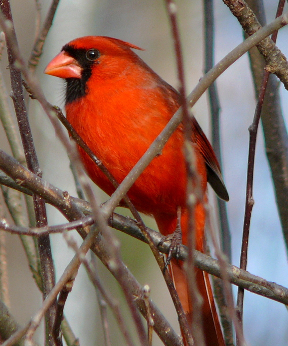 A male Northern Cardinal (Cardinalis cardinalis) perched in the branches of an apple tree. Photo taken with a Panasonic Lumix DMC-FZ50 in Caldwell County, North Carolina, USA.